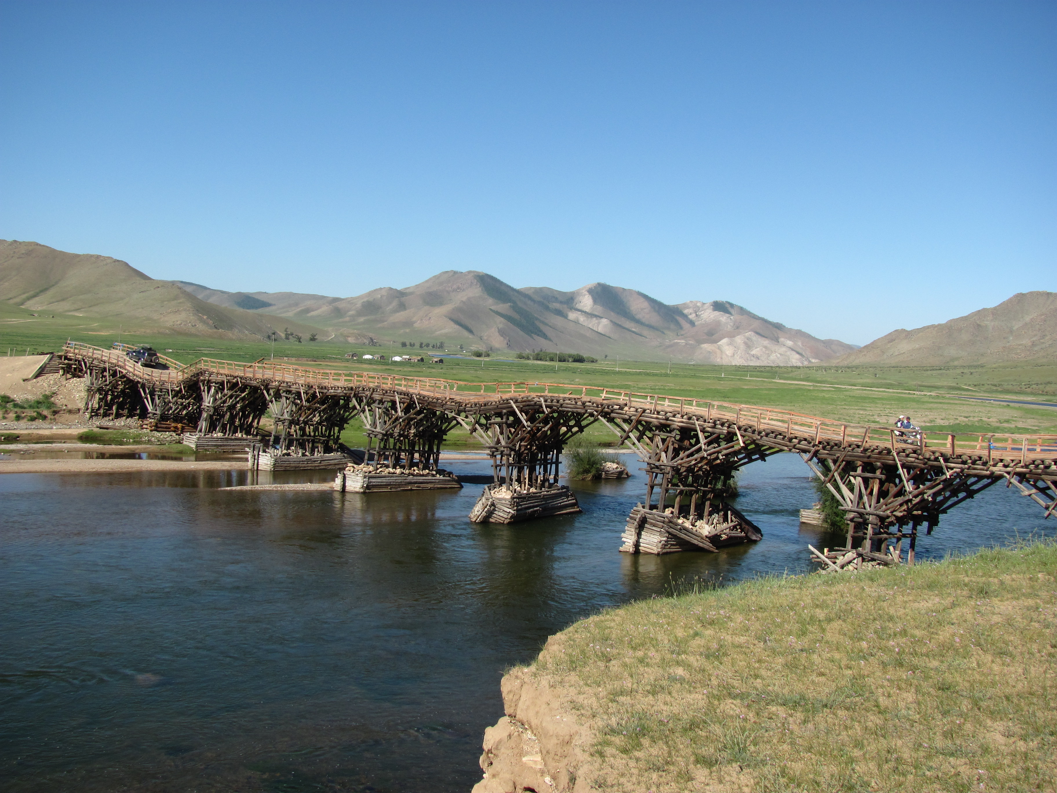 Bridge on River Ider near Jargalant Town. Khövsgöl Aimag, Mongolia.